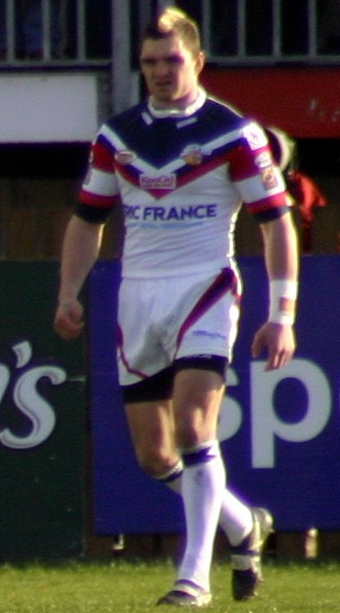 Danny Brough